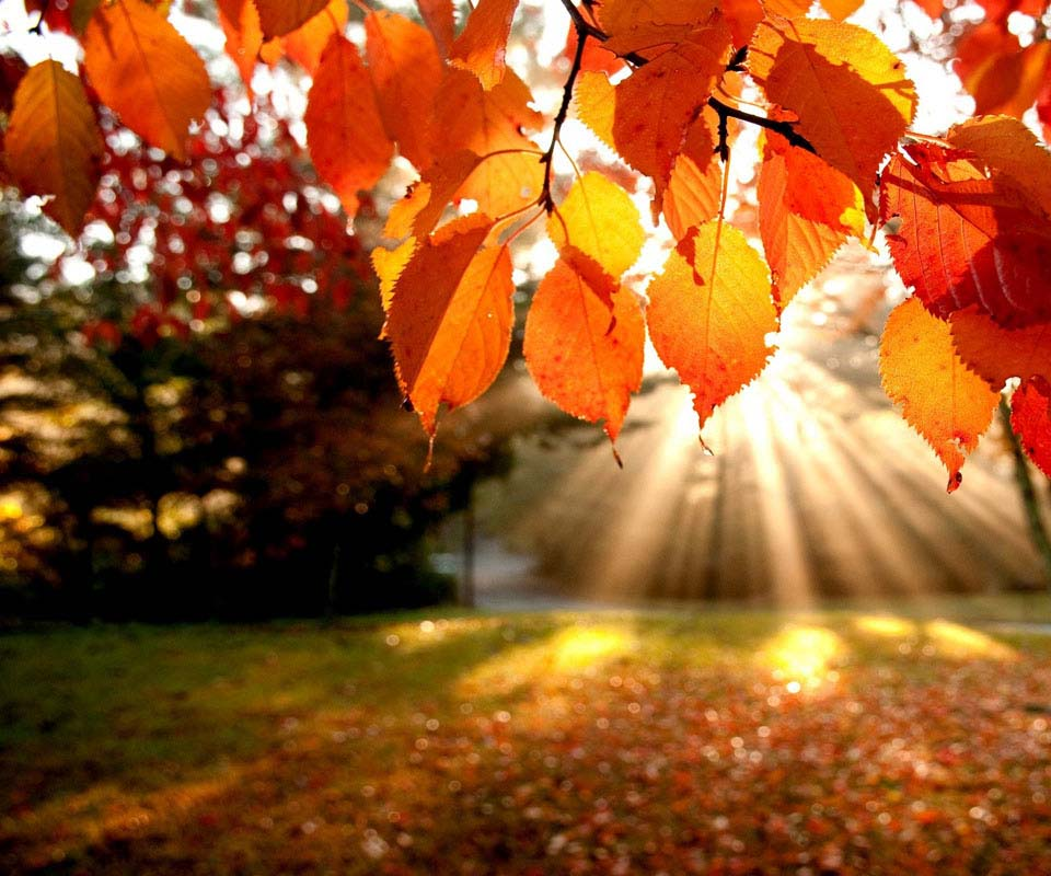 nature's beauty.